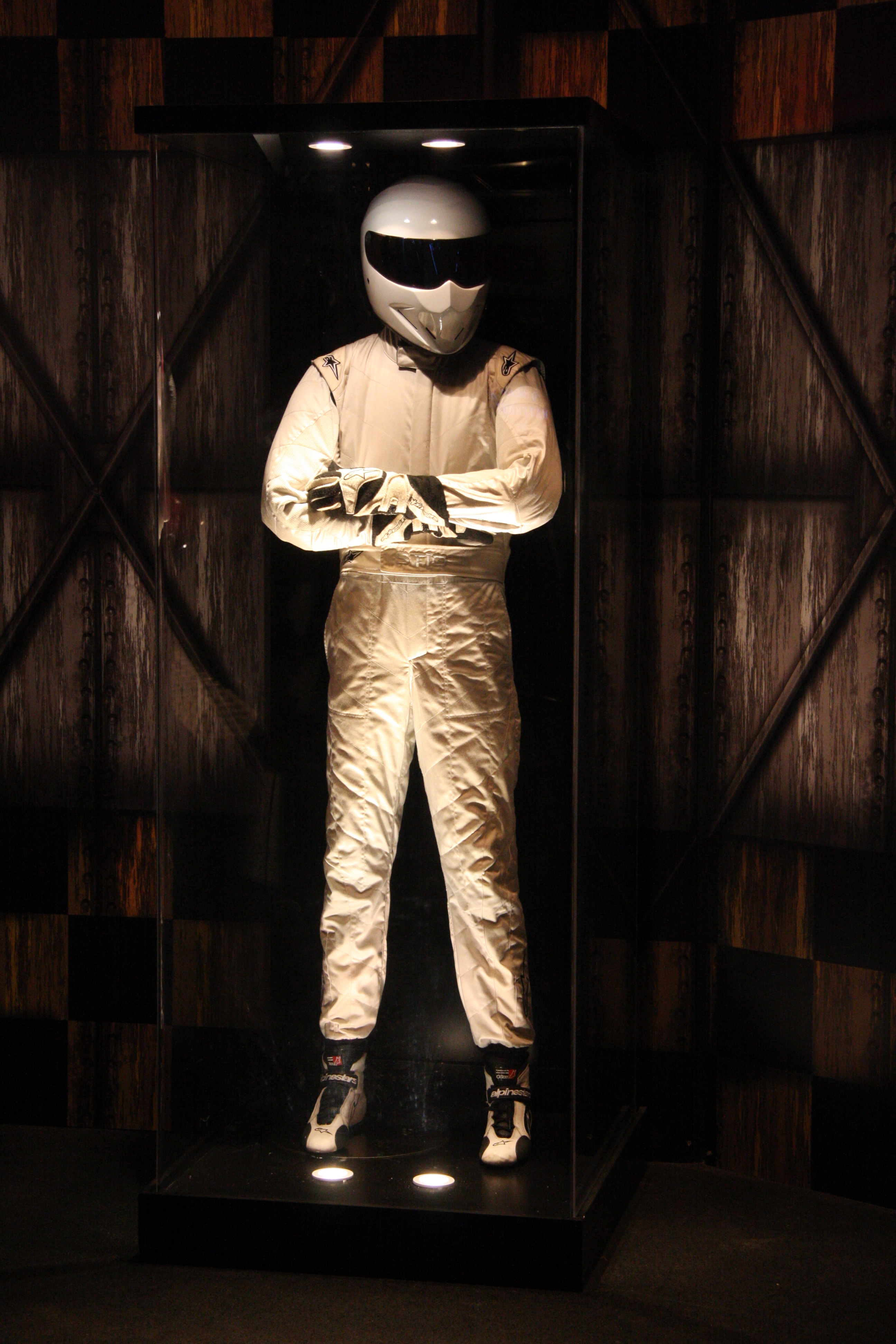 The Stig